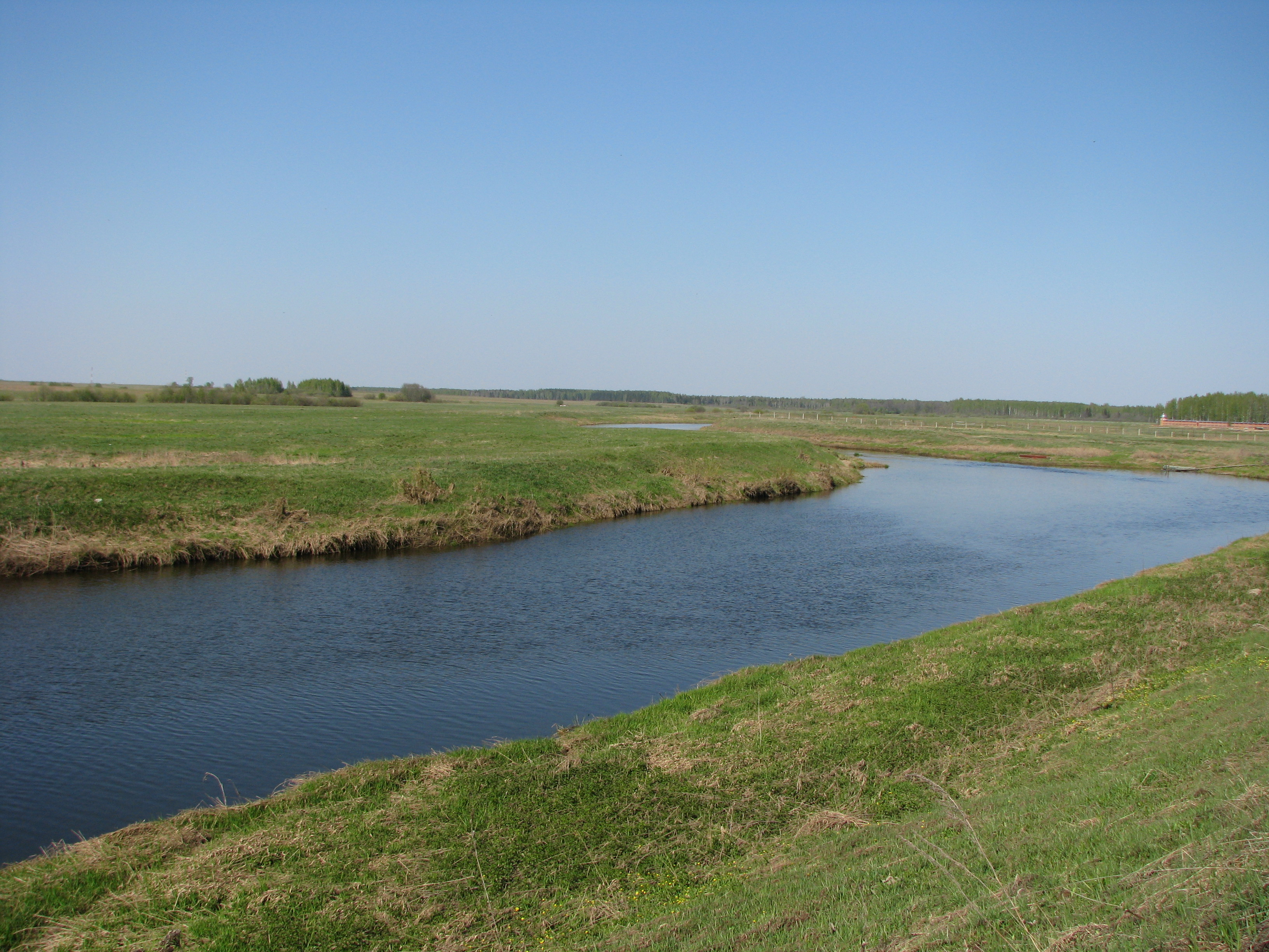 Teza River near Dunilovo Village. Ivanovo Oblast, Russia